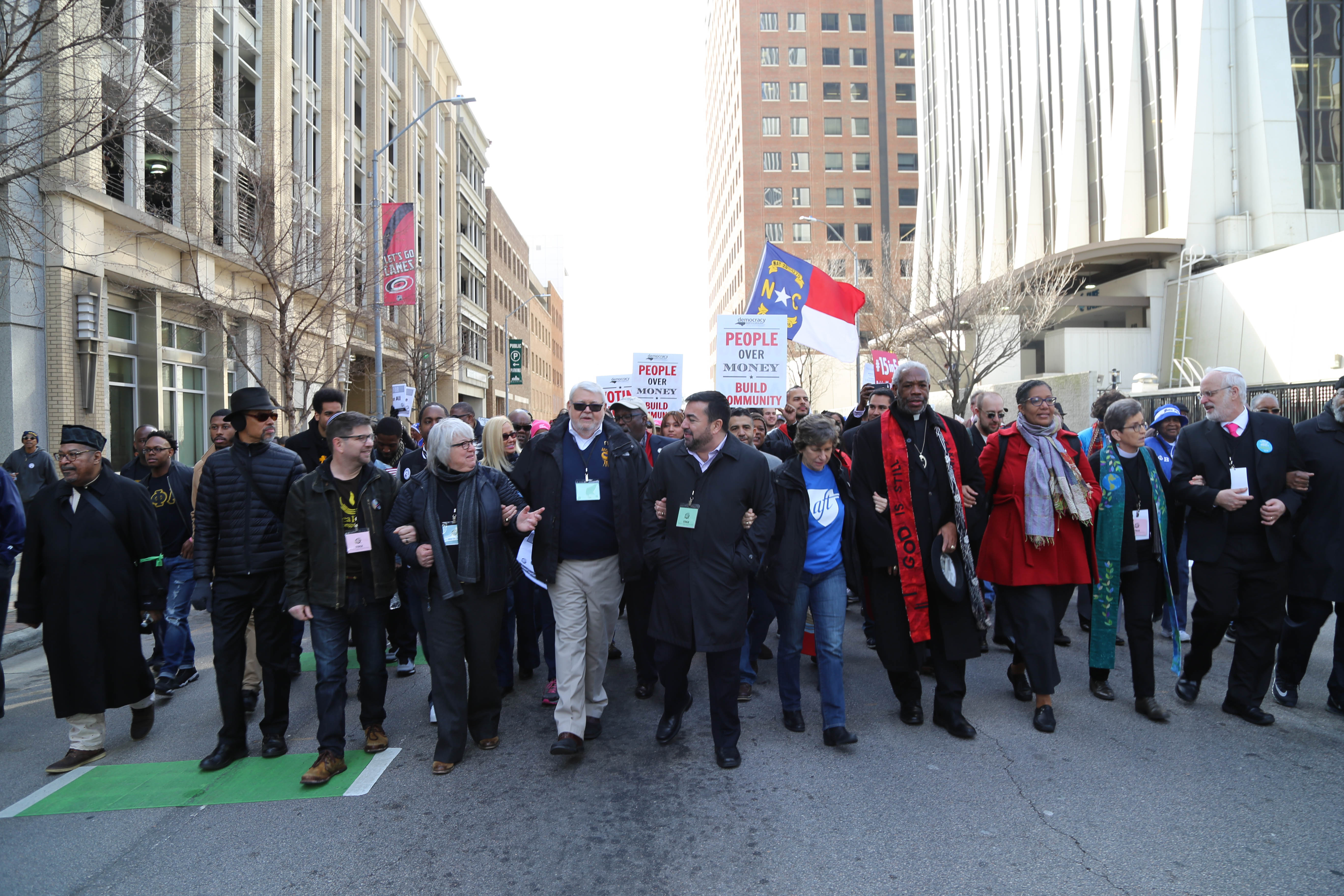 AFGE leaders and activists joined thousands for the 11th Annual Moral March on Raleigh.